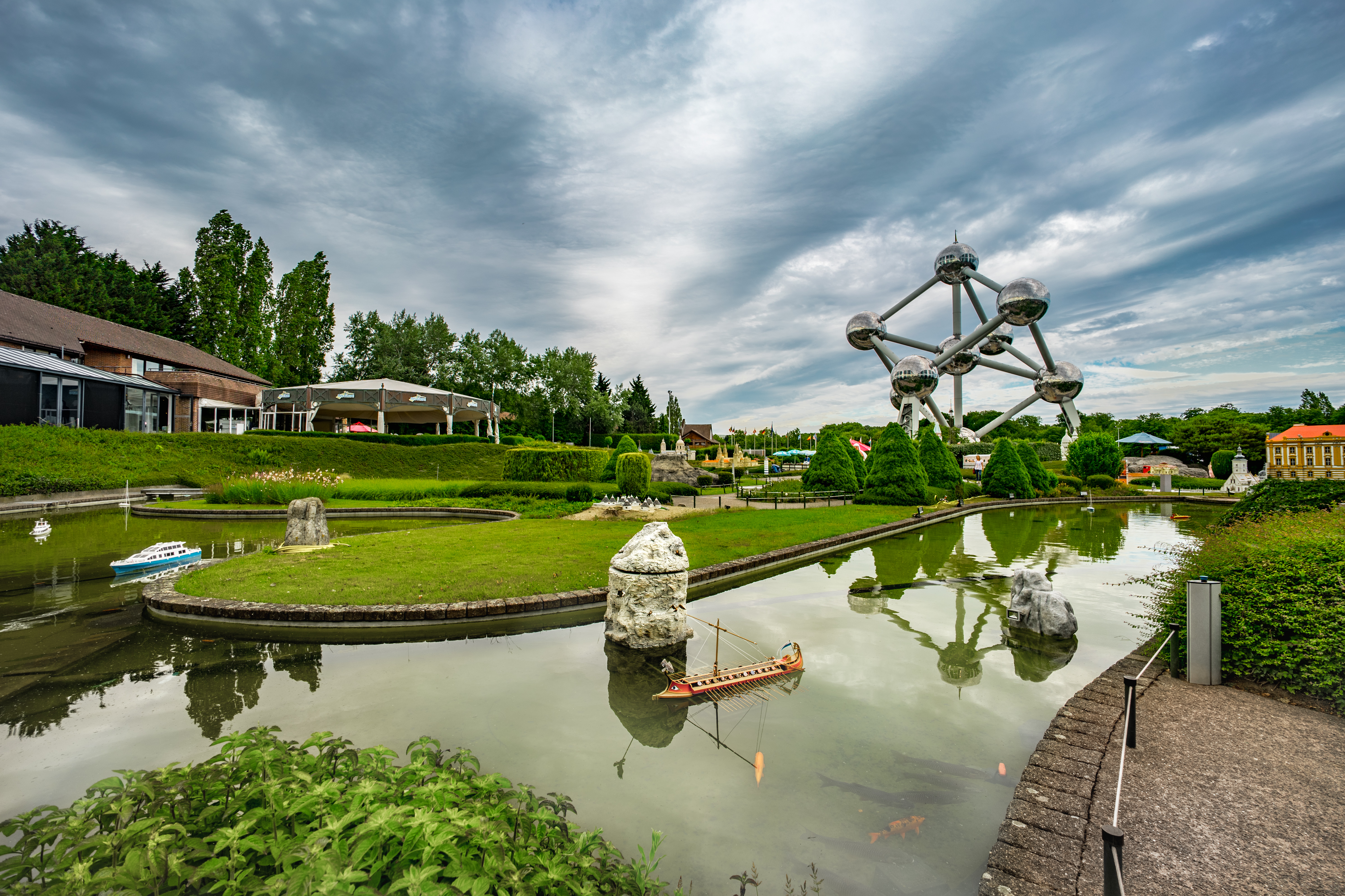 Mini-Europe welcomes 350,000 visitors per year. While still in Belgium, you can visit 350 building and monuments in the other 28 countries of the European Union. This photo of immovable heritage has been taken in the Brussels Capital Region